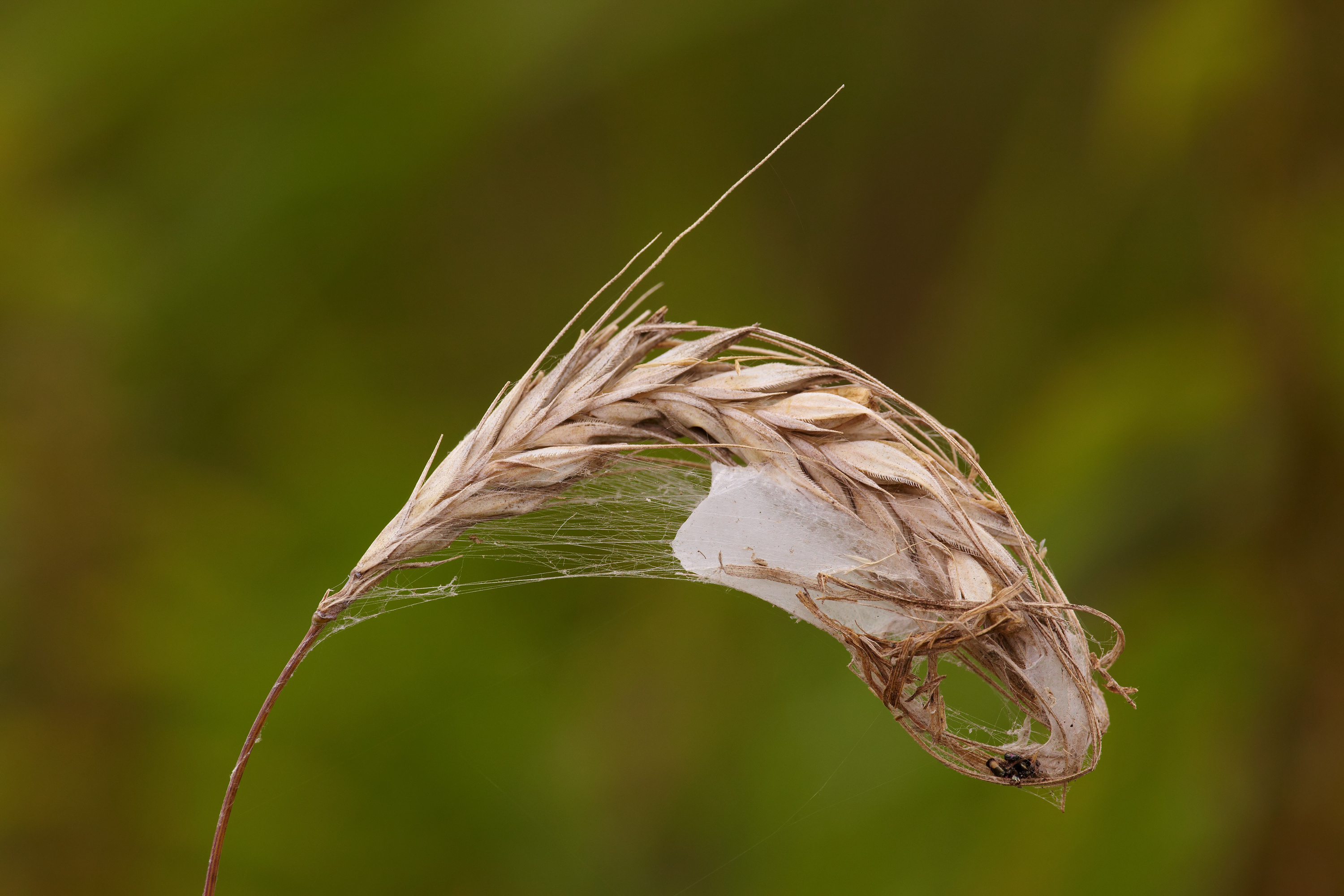 Unidentified webbing. Probably a butterfly cocoon